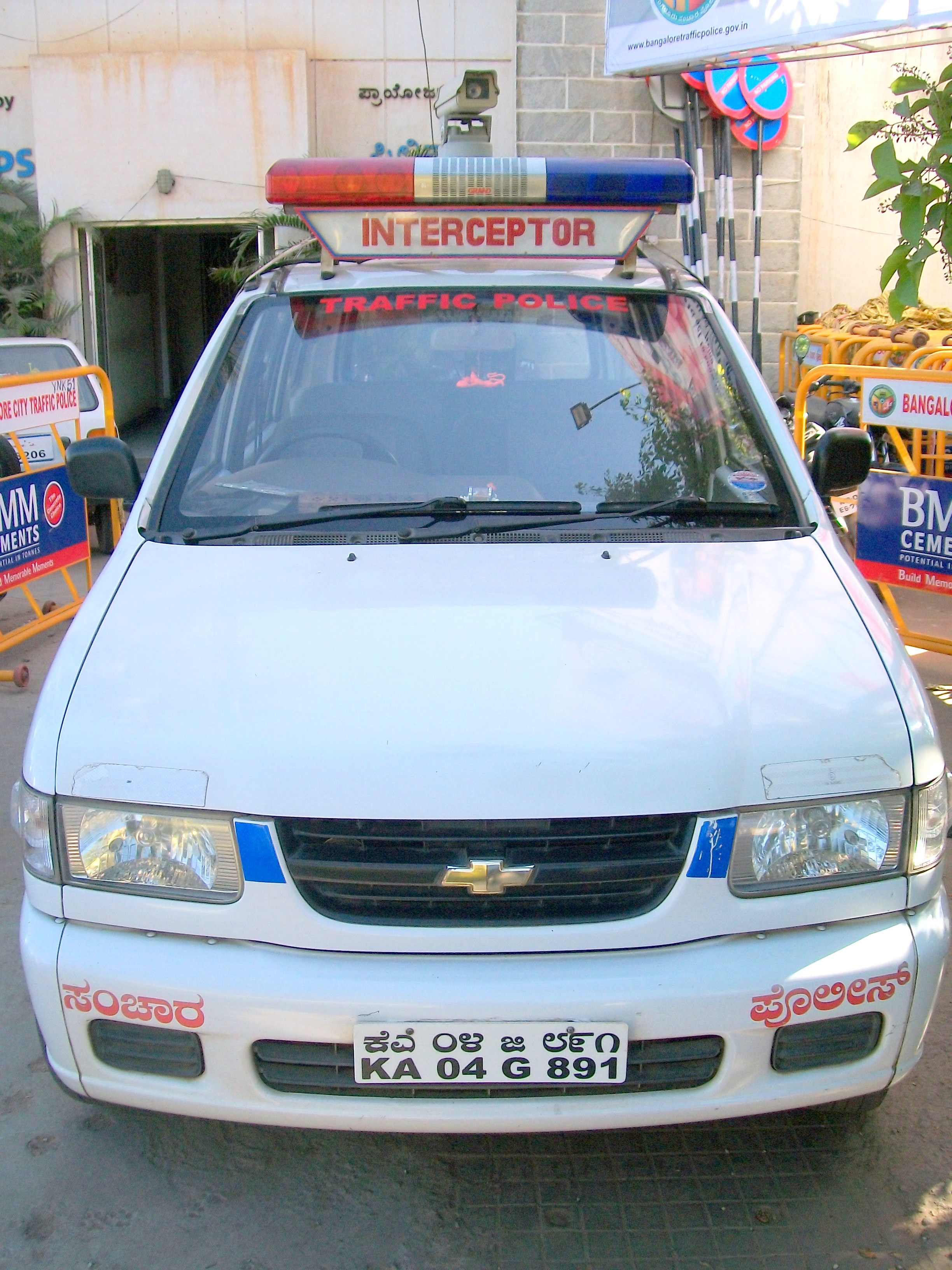 One of the typical Interceptors used by the Bangalore Traffic Police (BTP)- (Make and Model: Chevrolet Travera) widely used by the BTP. Photo taken at Yelahanka Traffic Police Station, Bangalore with consent.